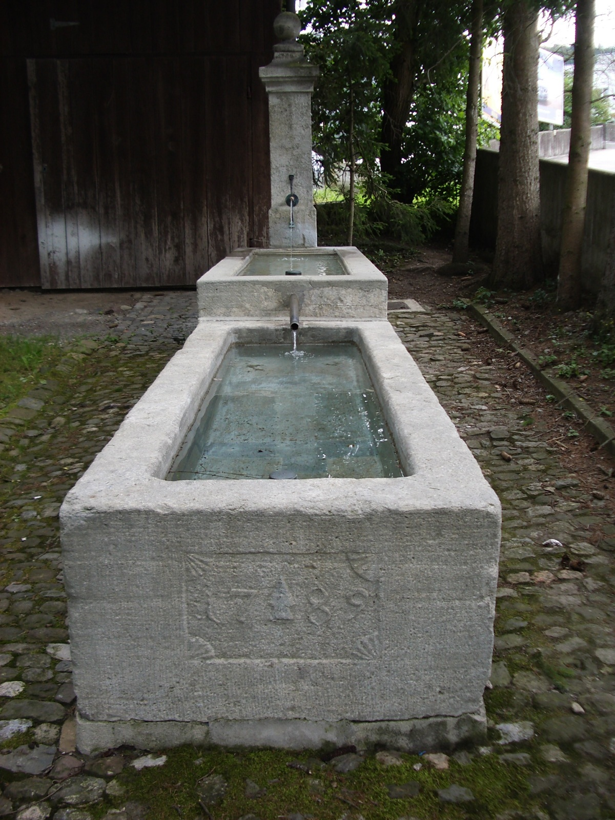 Schwamendingen, Zurich, Switzerland